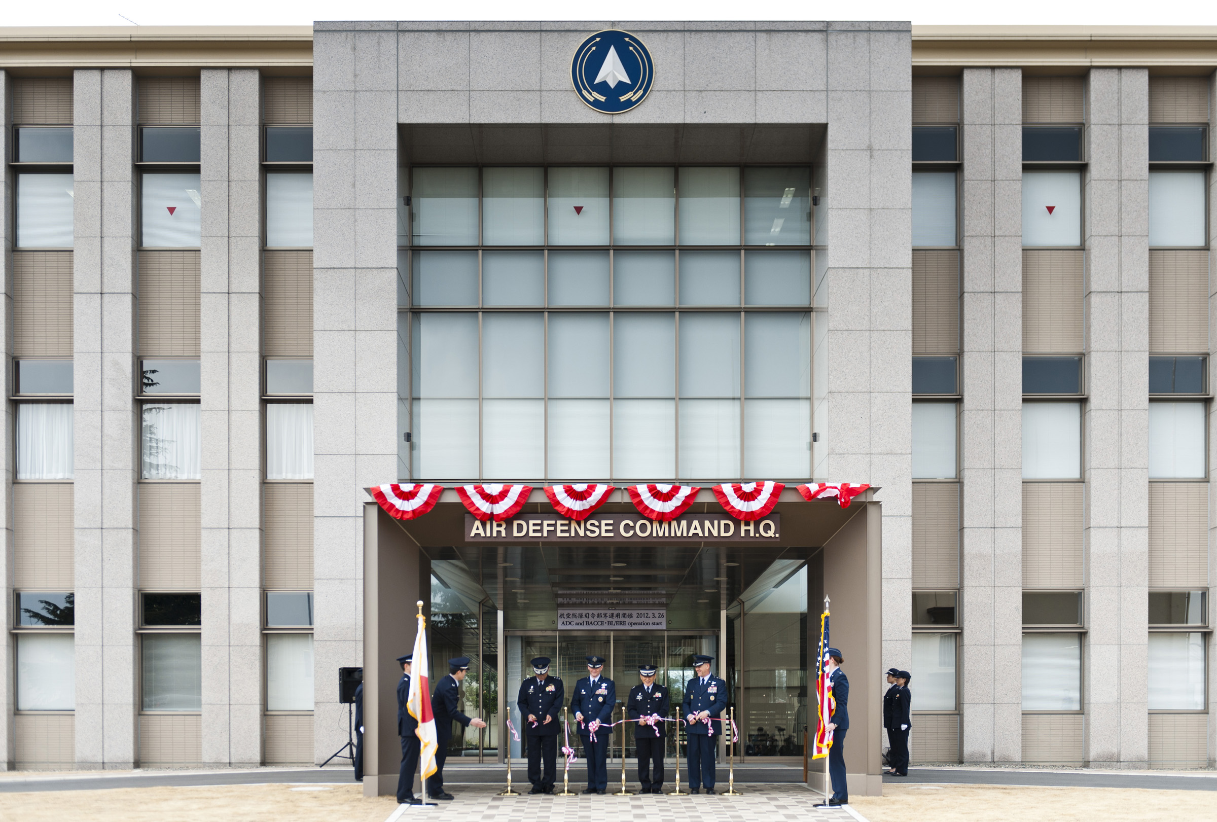 YOKOTA AIR BASE, Japan -- U.S. and Japanese leaders cut the ribbon during the opening ceremony for the new Japan Air Self-Defense Force Air Defense Command Headquarters March 26, 2012. The ADC headquarters, which conducts command and control operations to defend Japanese airspace, was relocated from Fuchu Air Base, Japan, as part of the 2002 Defense Policy Review Initiative, a bilateral process to enhance the U.S.-Japan Security Alliance and address force realignments in the Pacific. (U.S. Air Force photo/Staff Sgt. Samuel Morse)